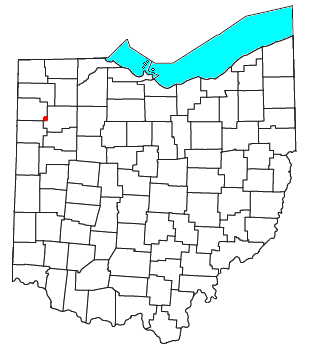 Locator map of the unincorporated community of Mandale in Paulding County, Ohio, United States.